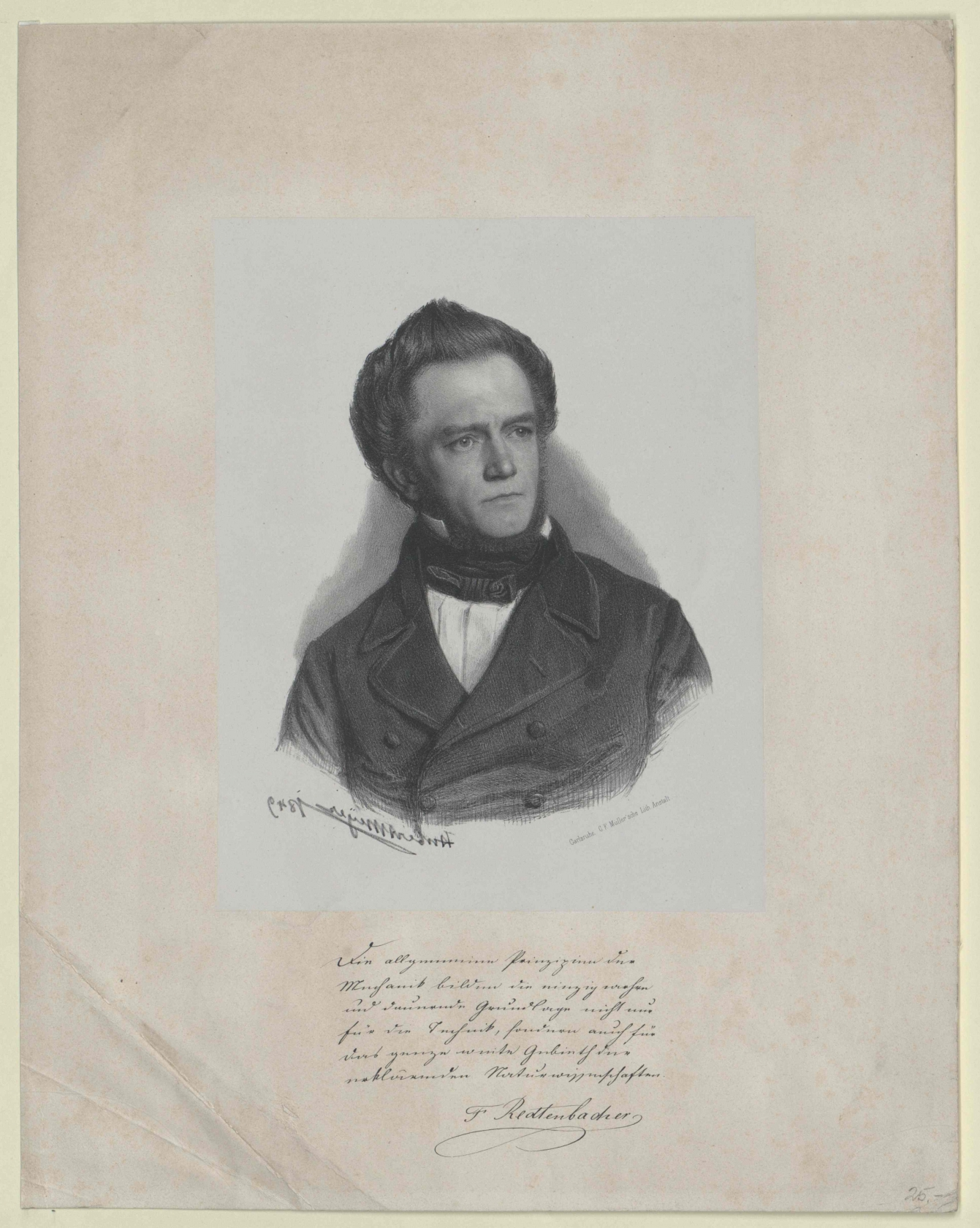 Ferdinand Redtenbacher, ca 1840